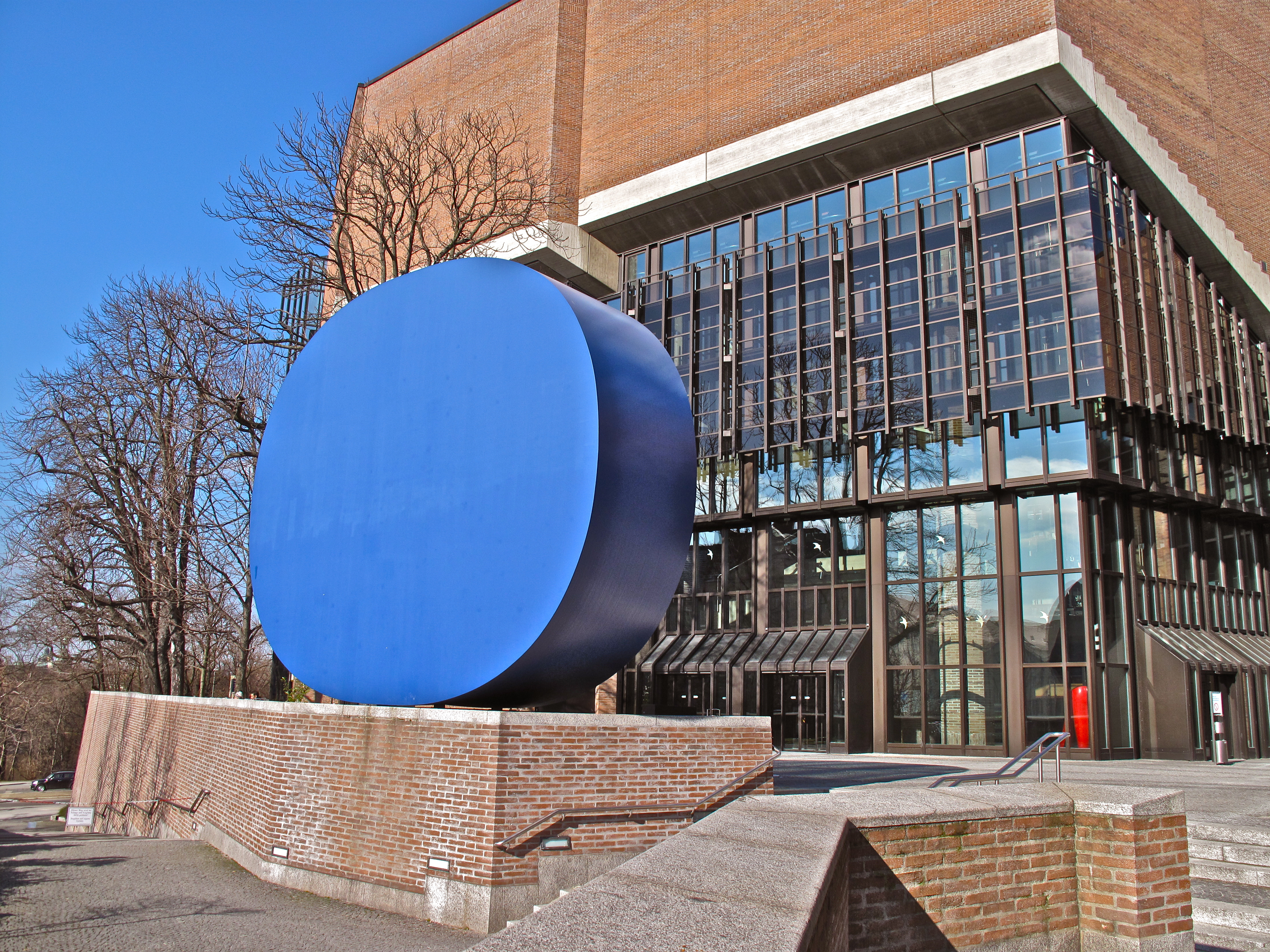 The Philharmonie of the Gasteig (cultural centre of the city of Munich) with the sculpture "Gerundetes Blau" of Rupprecht Geiger.